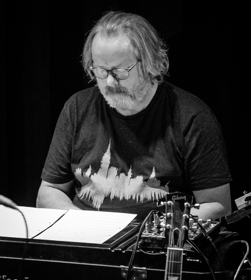 Brynjulf Blix with The Organ Club «Club7 revival» at Cosmopolite in Soria Moria. The concert took place on 26. October 2017. Lineup: Little Earl Wilson (vocal), Susanne Fuhr (vocal), Calle Neumann (saxophone), Vidar Johansen (saxophone), Erik Wesseltoft (guitar), Kjell Larsen (guitar), Brynjulf Blix (organ), Miki N`Doye (percussion), Bugge Wesseltoft (organ), Sveinung Hovensjø (bass guitar), Bjørn Jensen (drums) and Charles Mena (drums).